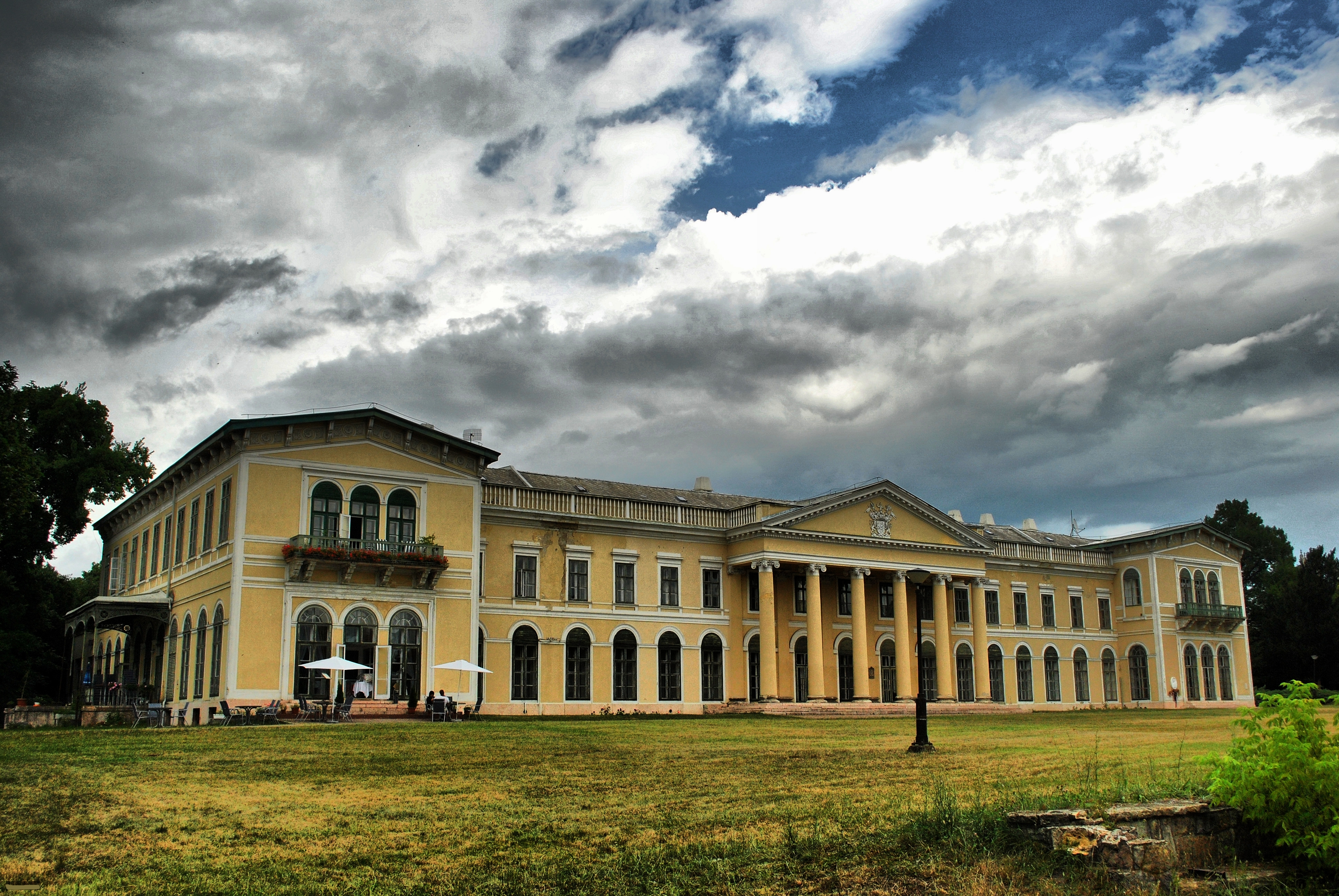 Former Károlyi Palace, in Fót, Pest county, Hungary. Architect: Miklós YBl.